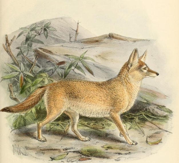 Engraving of a pale fox